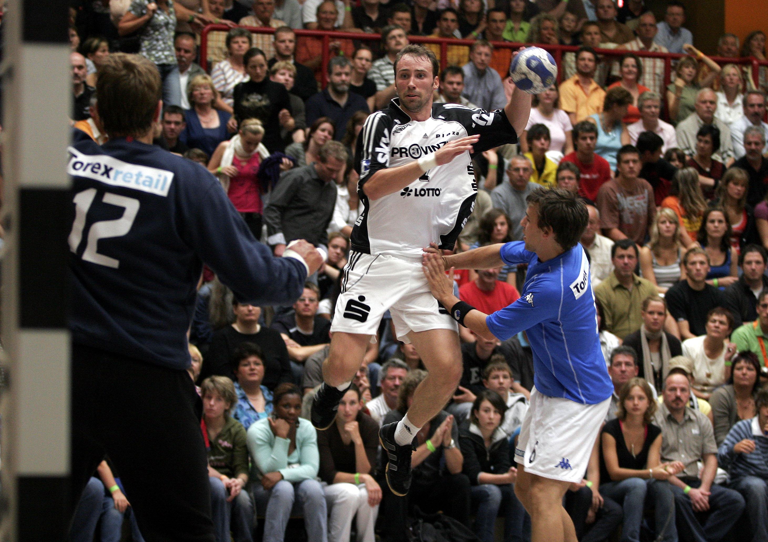 The Slowenian Handballplayer Vid Kavticnik (THW Kiel) during the Schlecker Cup 2007 in Ehingen (Germany)